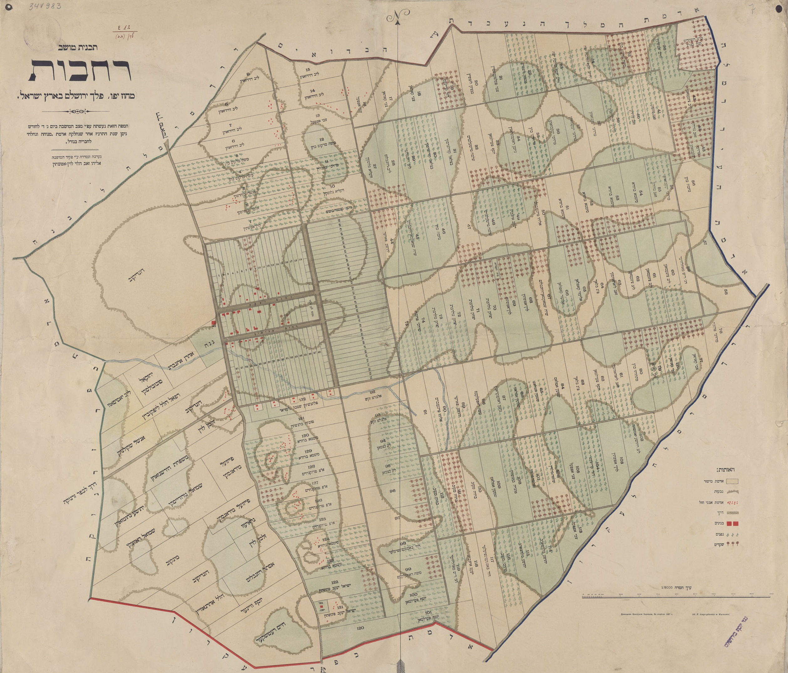 A Plan of Rehovot 1897